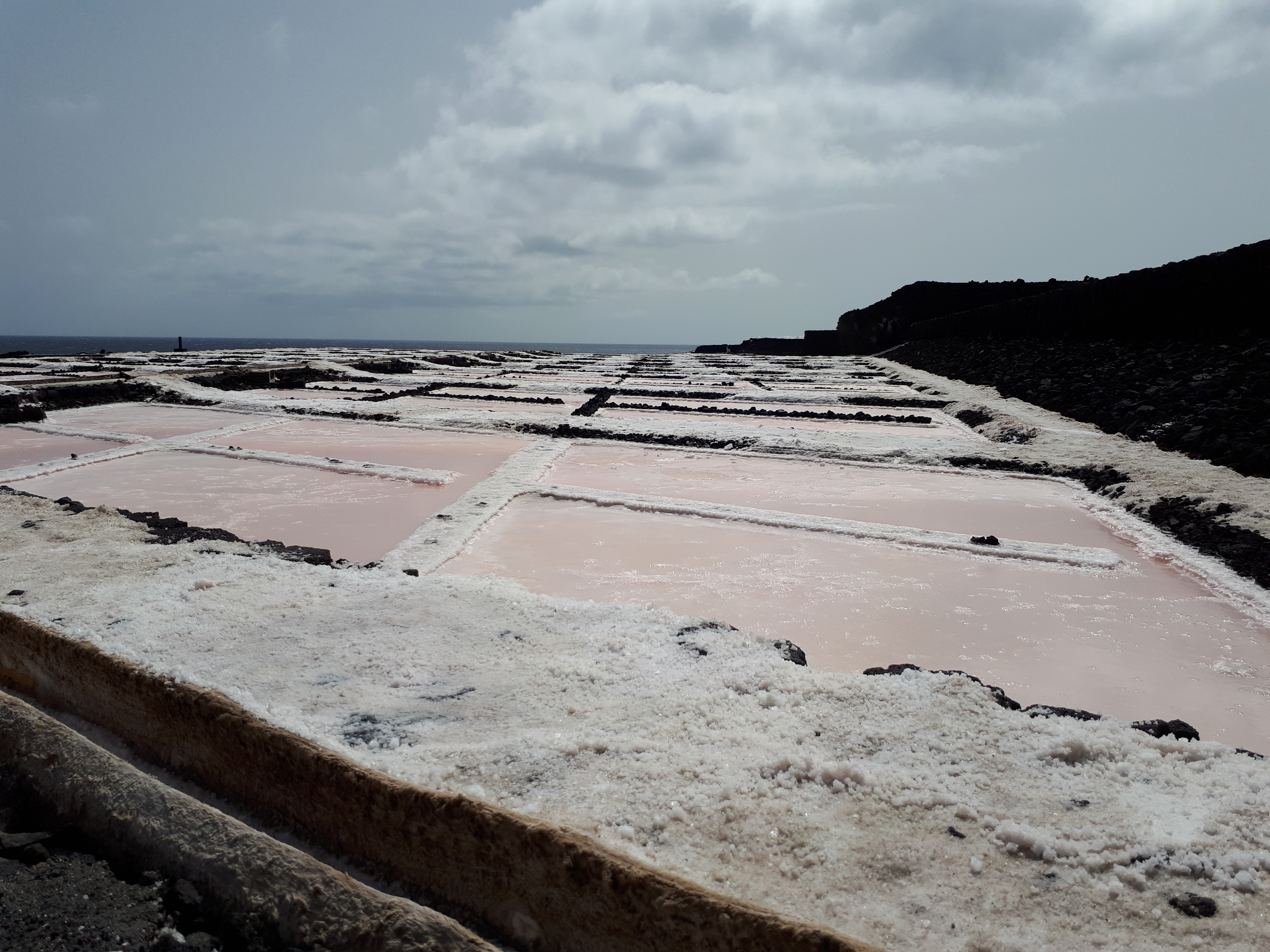 Basin of the Saline of Fuencaliente with crystallized salt